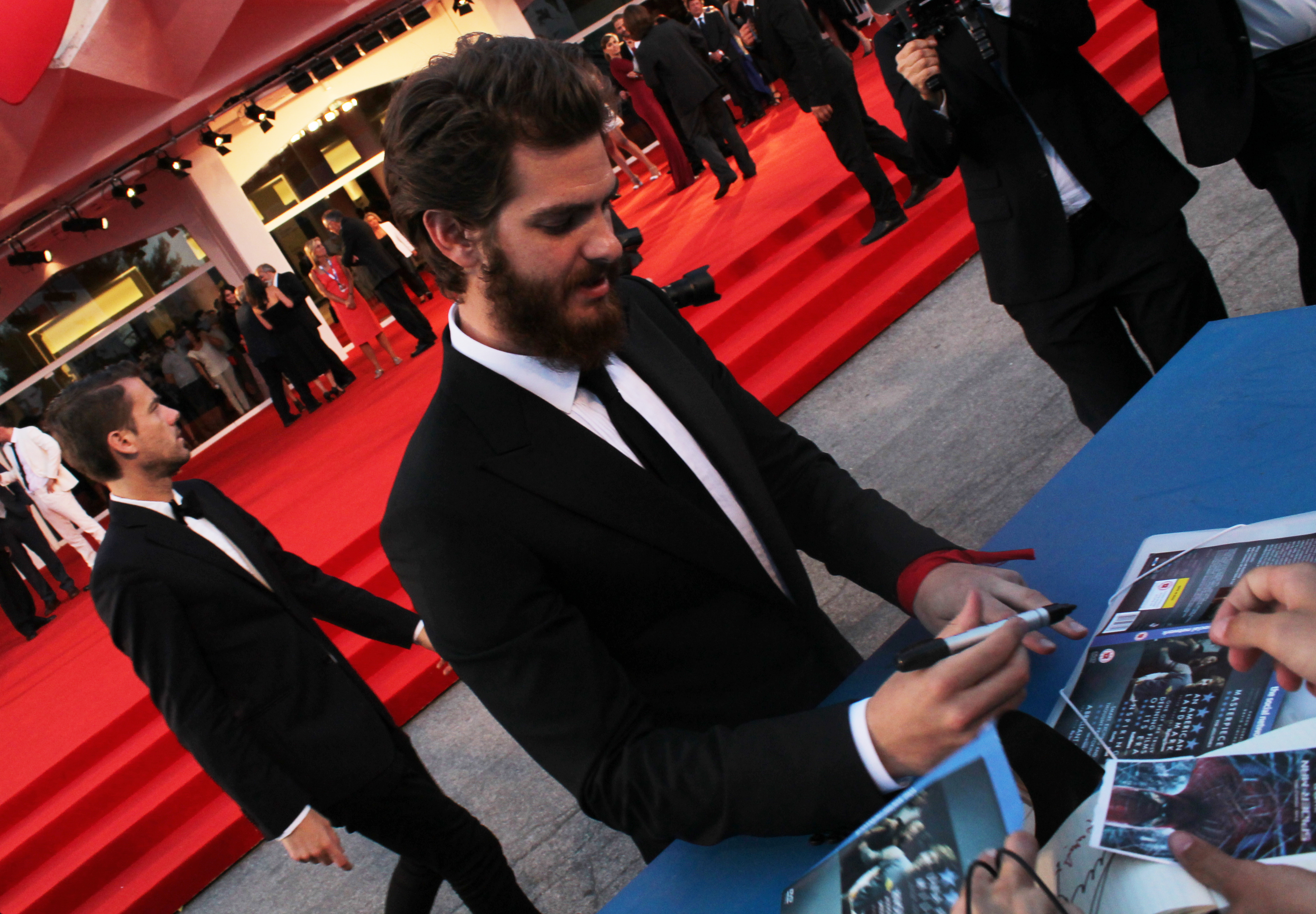 Venice Film Festival 2013